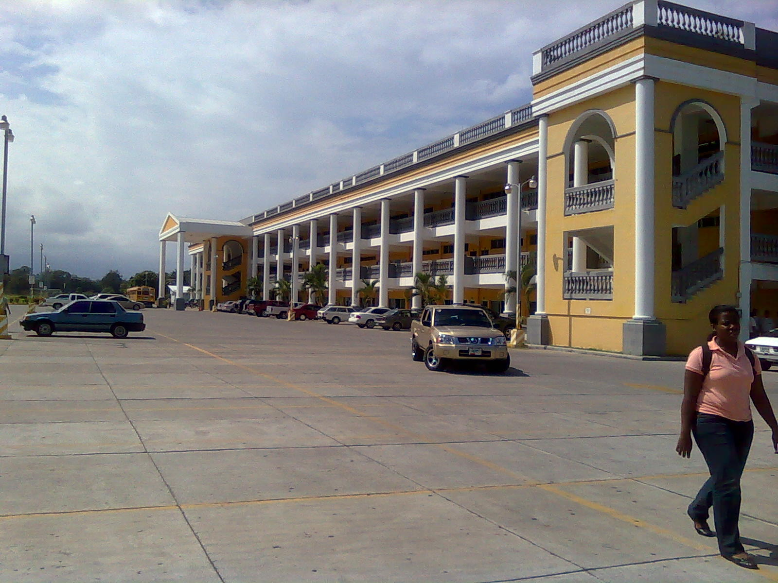 technical University of Honduras. La Ceiba, Atlántida, Honduras.